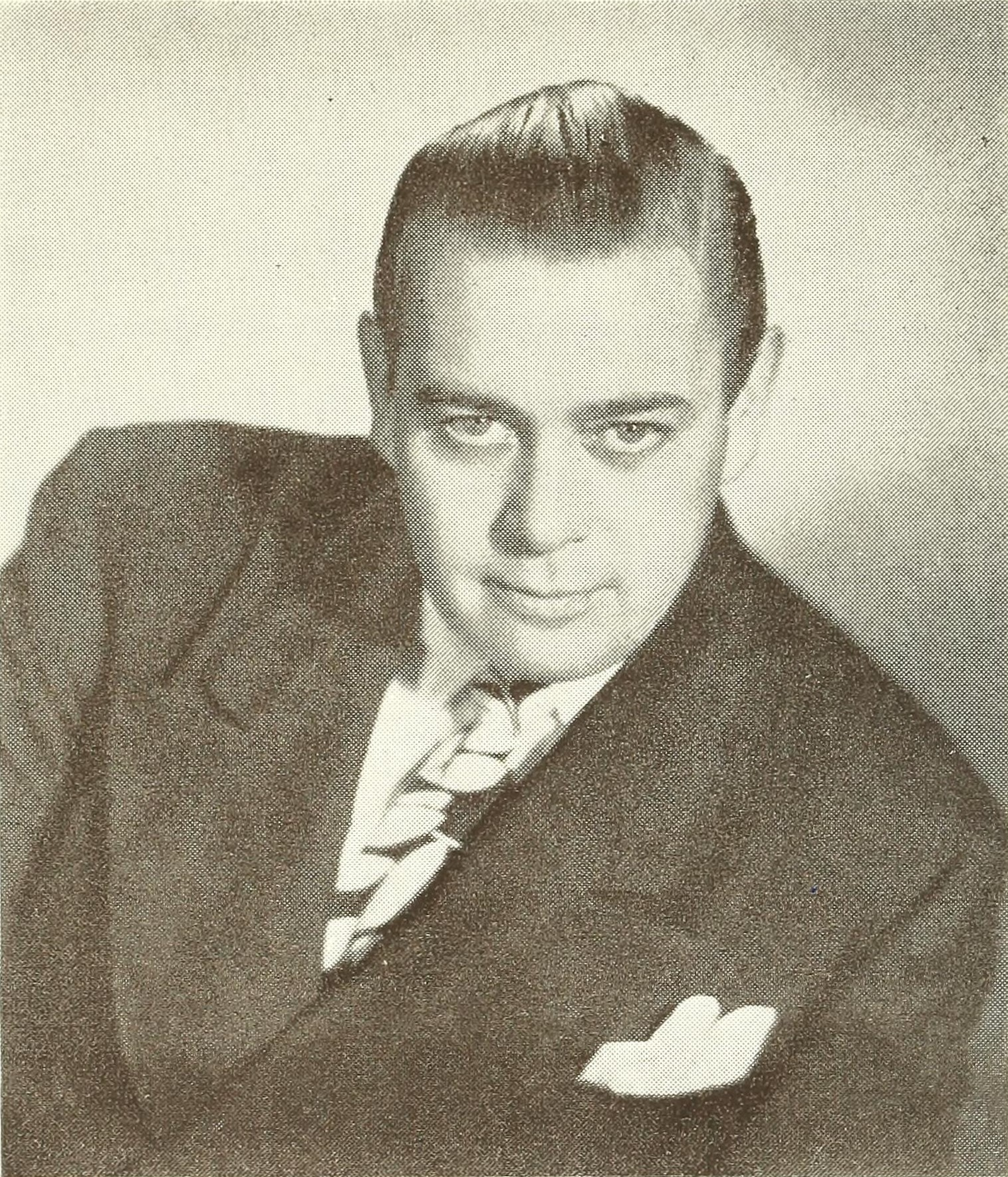 Portrait of Morton Downey, Sr.